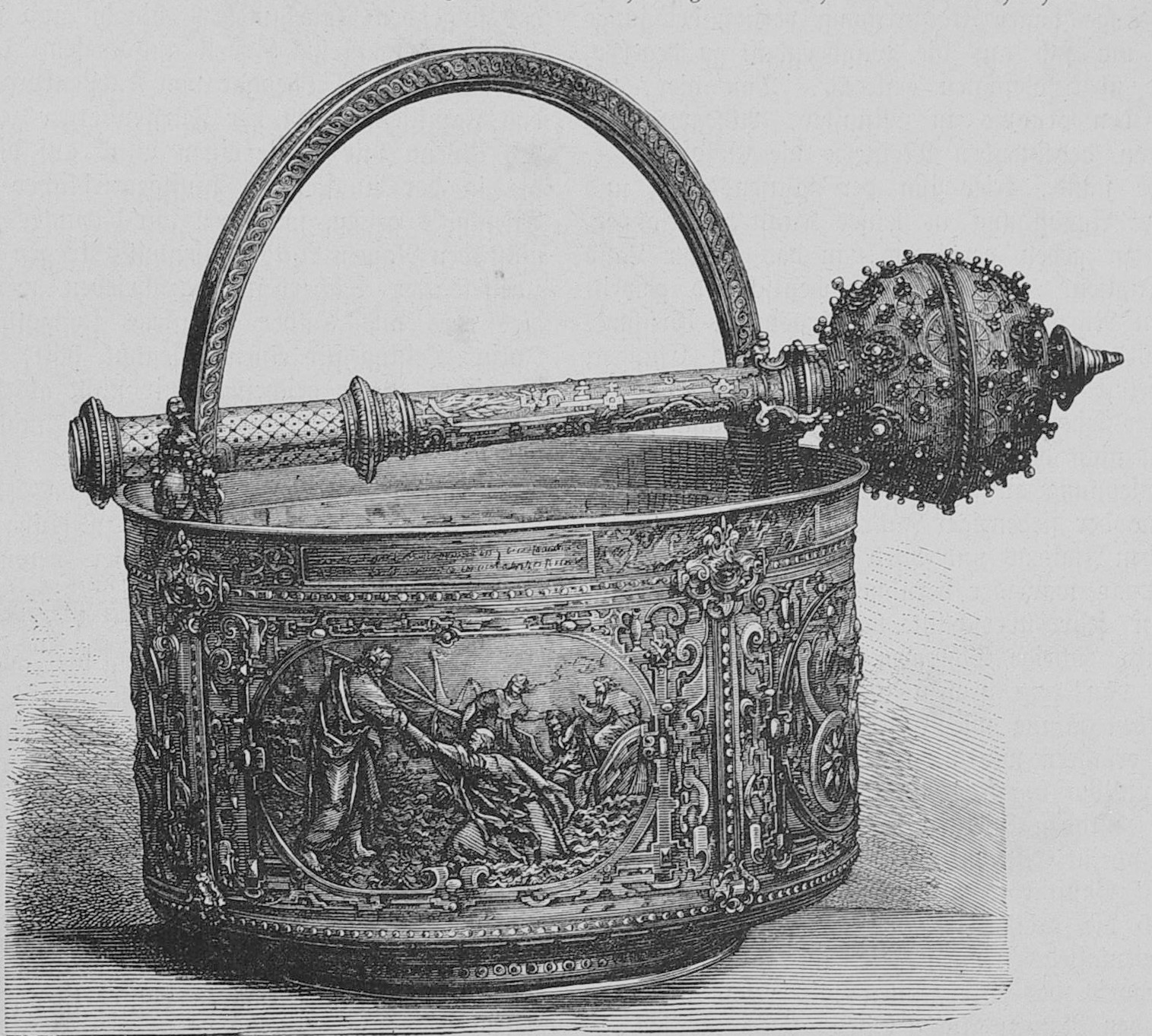 caption: "Weihwasserkessel mit Sprengwedel.Eine Silberarbeit aus dem siebenzehnten Jahrhundert von Anton Eisenhut."